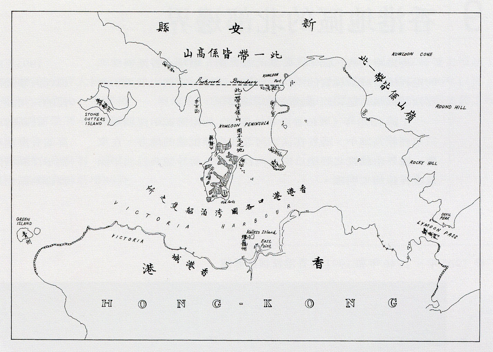 Map of Hong Kong in First Convention of Peking in 1860.